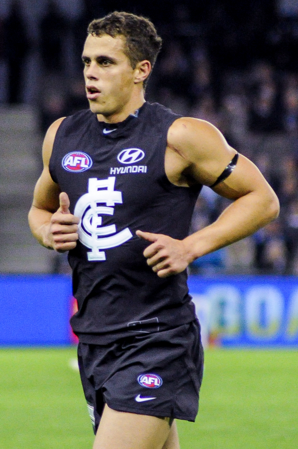 Ed Curnow during the AFL round twelve match between Carlton and Greater Western Sydney on 11 June 2017 at Etihad Stadium in Melbourne, Victoria.